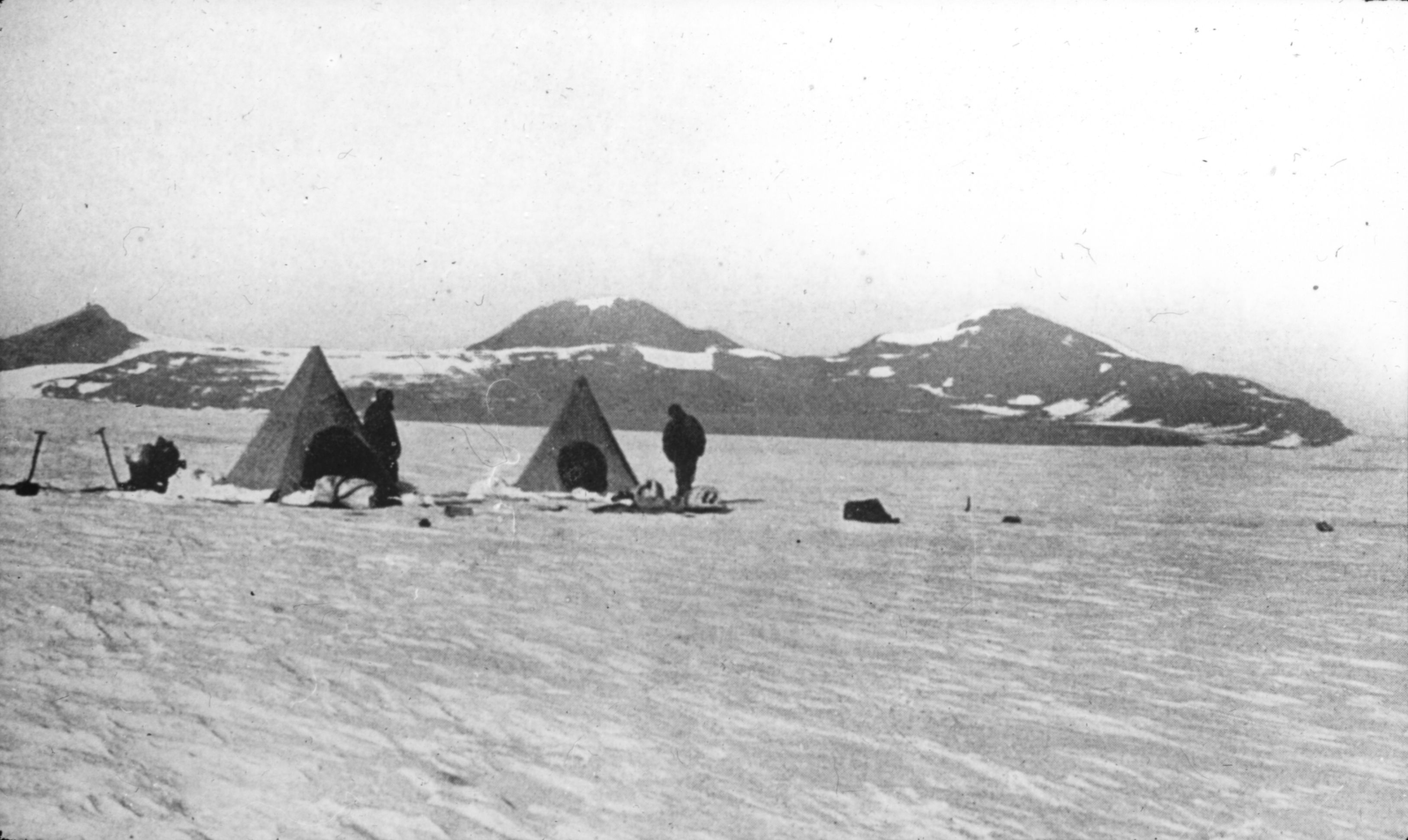 Photographs of the Nimrod Expedition (1907-09) to the Antarctic, led by Ernest Sheckleton